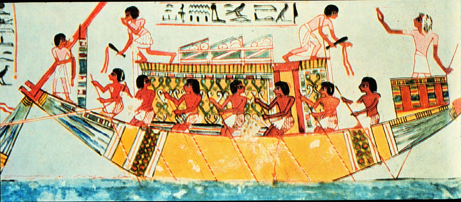 Source: National Oceanic & Atmospheric Administration (NOAA) Central Library. Image ID: theb2121, Historic C&GS Collection. Egyptian tomb painting from 1450 BCE. Caption: "Officer with sounding pole...is telling crew to come ahead slow. Engineers with cat-o'-nine-tails assuring proper response from engines." Found at